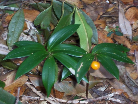 fruiting plant at the floor of Mount Banda Banda rainforest, Orange Berry - Drymophila moorei